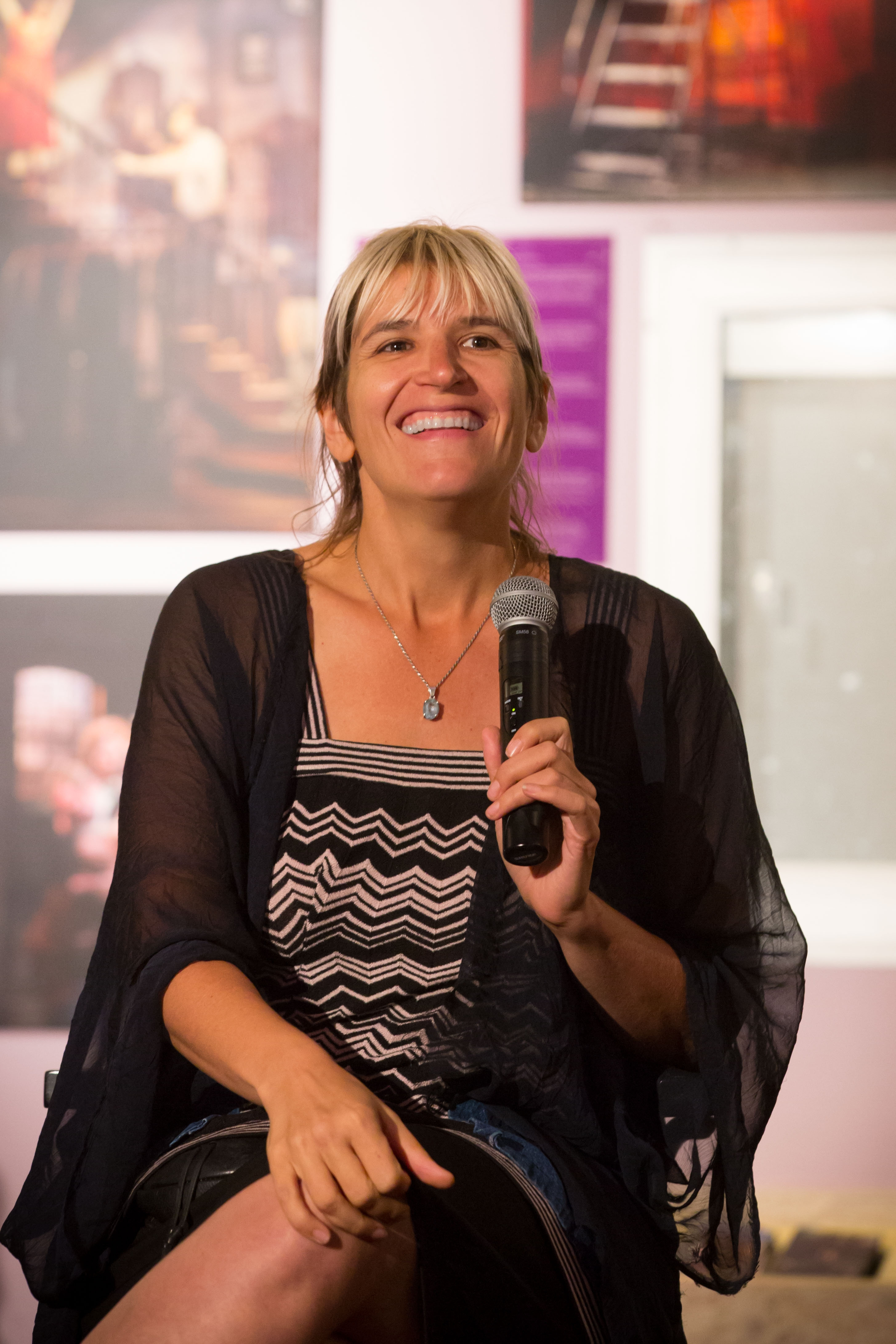 Photograph of Andrea Polli, artist, speaking at the opening for the 2013 Particle Falls installation at the Wilma Theater, Philadelphia, part of the Sensing Change exhibit organized by the Chemical Heritage Foundation, Philadelphia, PA, USA, 26 September 2013.